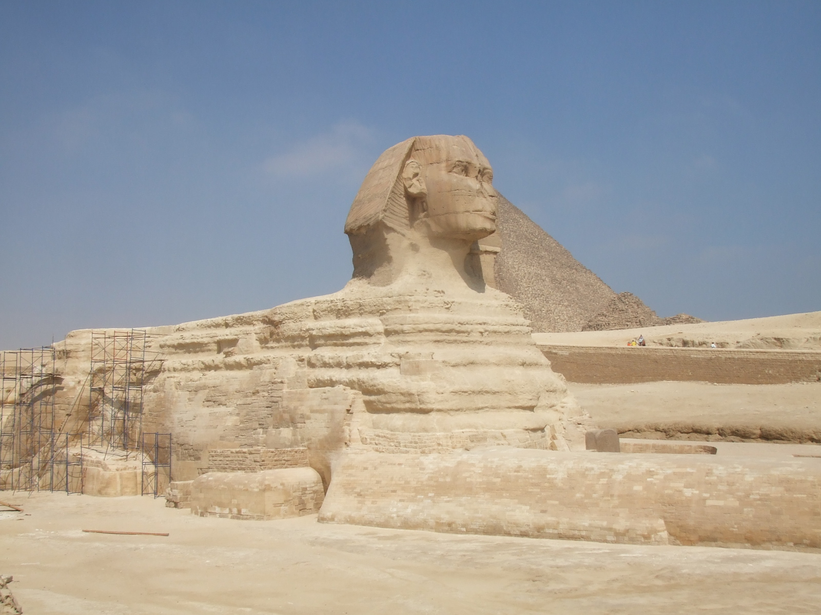 GizaSphinx